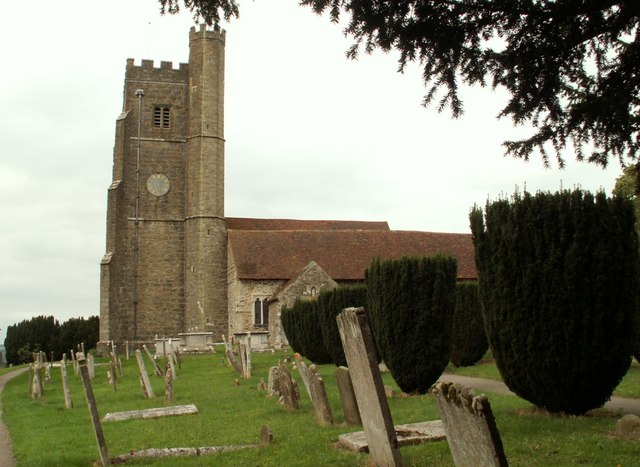 St. Peter and St. Paul, Seal, the parish church of Seal in Kent, England, UK. This church, which is mainly 14th and 15th century, stands on high ground over looking the village of Seal.